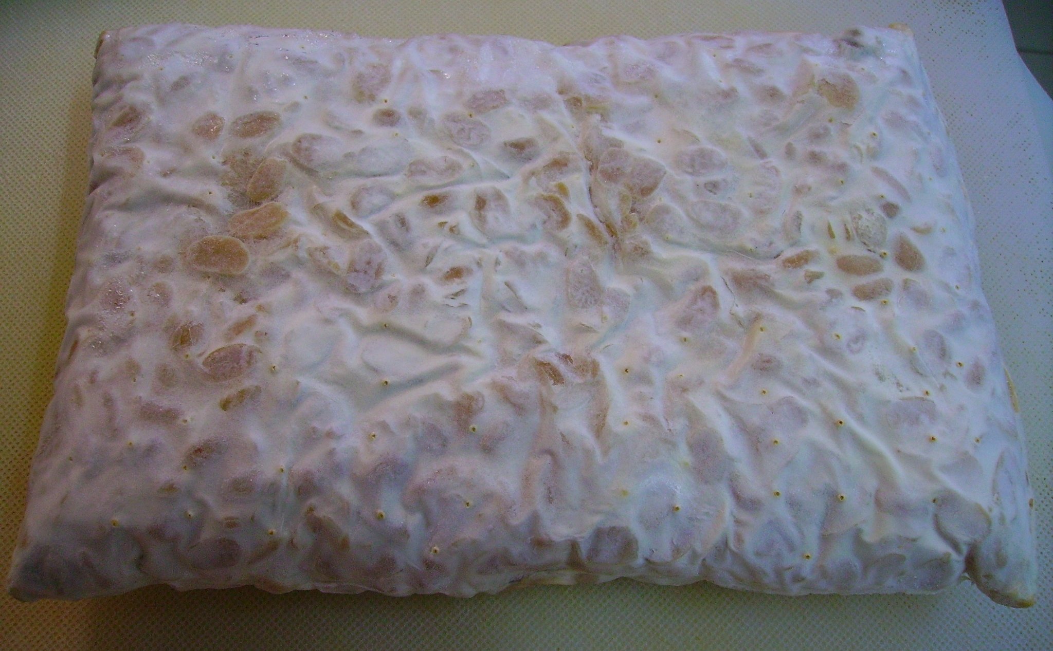 A cake of tempeh made from dehulled soybeans and Rhizopus sp. 根黴屬真菌發酵脫皮大豆所得到的丹貝。